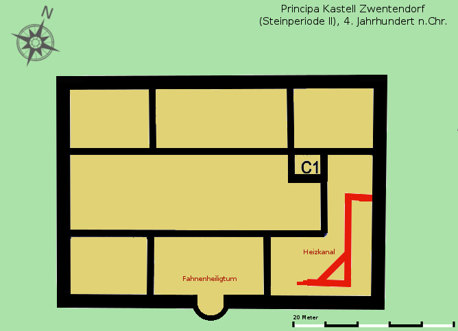 Befundskizze der Principia des Kastell Zwentendorf, Steinperiode II, 4. Jhdt.n.Chr.